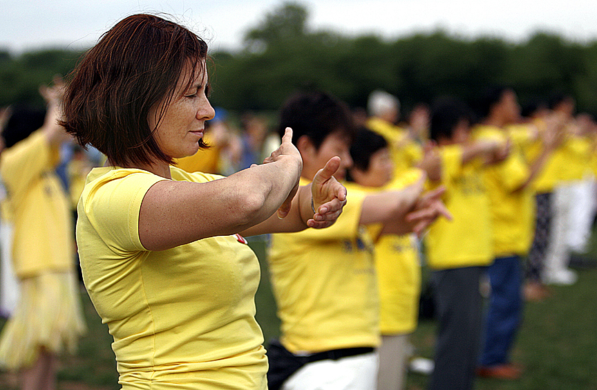 Falun Dafa, part of the fourth exercise, image taken at the July 20th 2007, Washington DC Rally, done for protesting the persecution against Falun Gong in mainland China.